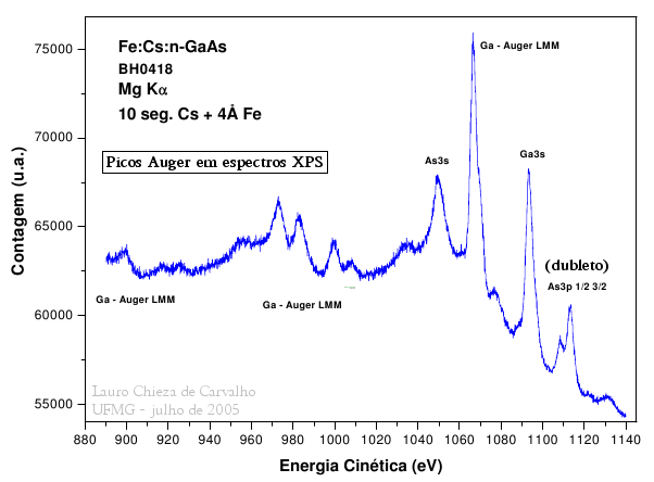 Auger structures in XPS spectrum.